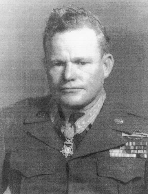 Hubert L. Lee, United States Army, Korean War Medal of Honor recipient.